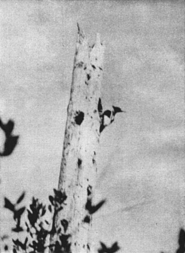 A male Cuban Ivory-billed Woodpecker